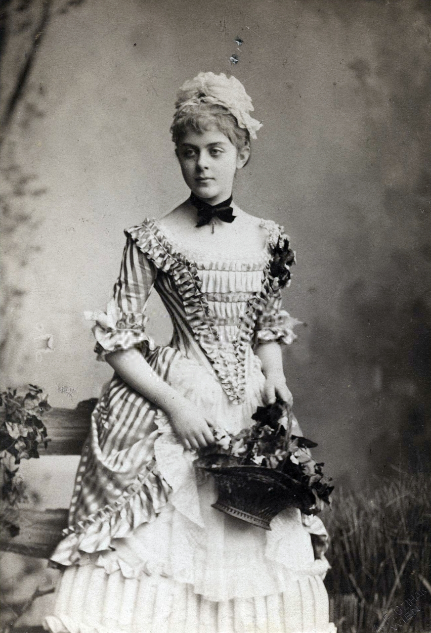 Baroness Mary Vetsera (1871-1889)